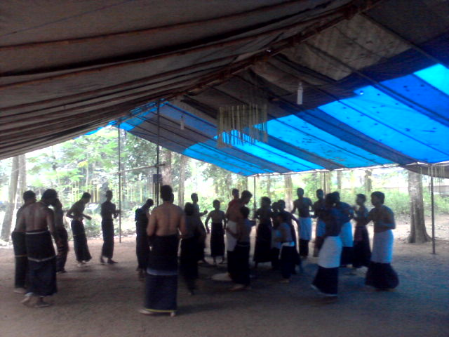 A dance conducted by Ayyappa devotees. Photo taken from Malappuram district